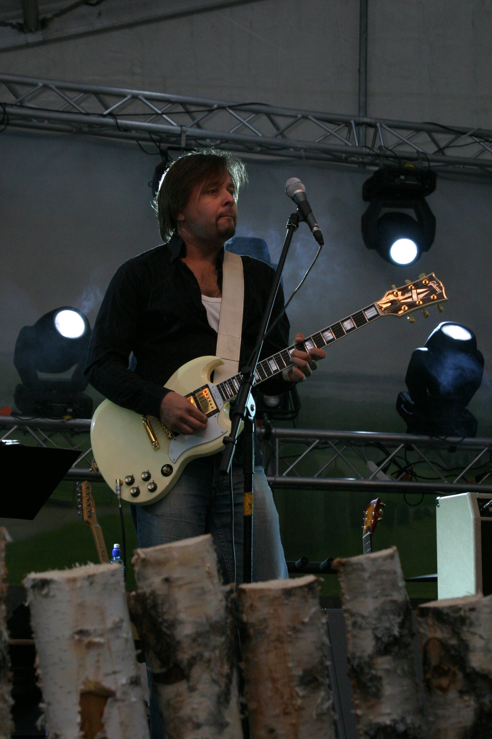 Heikki Hela in Vihreät Niityt music festival in the summer 2006.